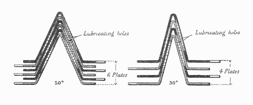 Hele Shaw clutch plates, section (Rankin Kennedy, Modern Engines, Vol II).jpg